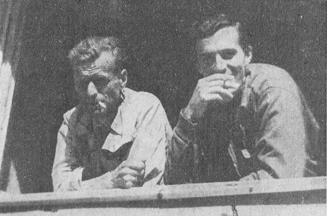 rtm Rzeszotarski "Żmija" i pchor. Zygmunt Zabierzowski "Zygmunt" w pierwszych dniach Powstania Warszawskiego, sierpień 1944